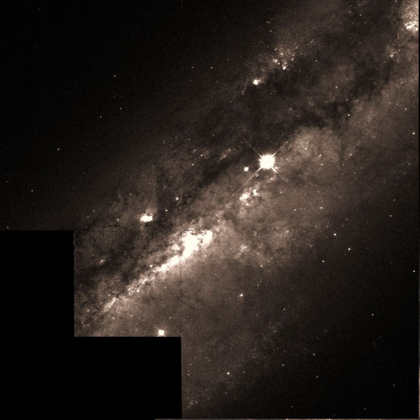 Messier 108 by Hubble Space Telescope ; WFPC2; F606W